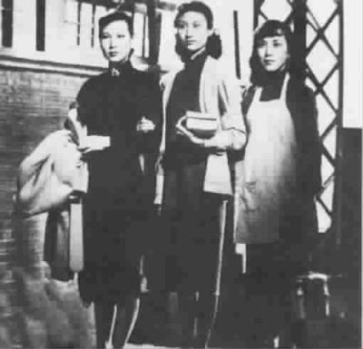 Scene from Three Women directed by Chen Liting